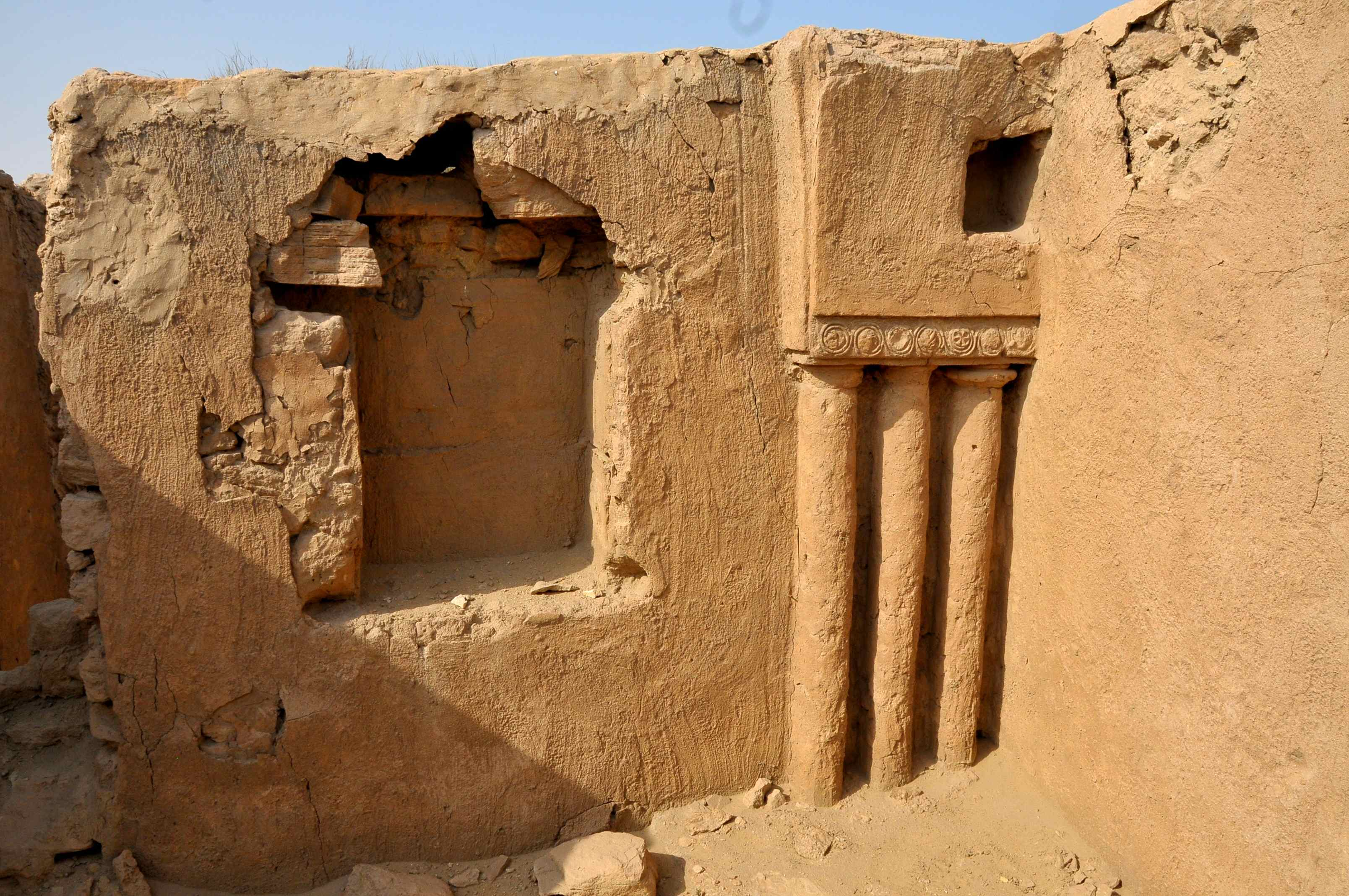 Jubail Church, an ancient (4th-century) Nestorian church building near Jubail, Saudi Arabia